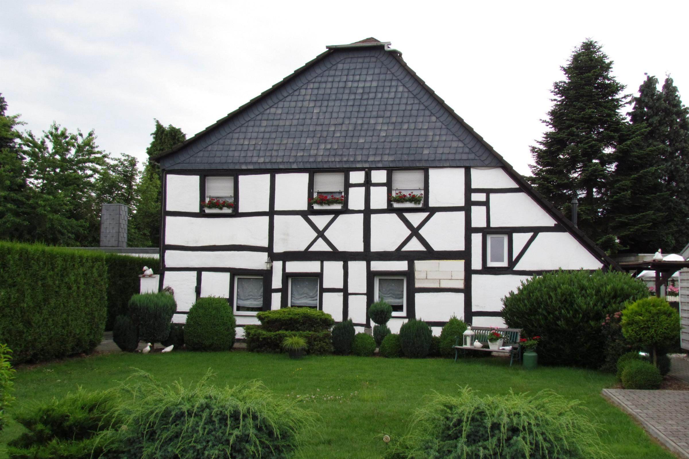 This is a photograph of an architectural monument.It is on the list of cultural monuments of Korschenbroich